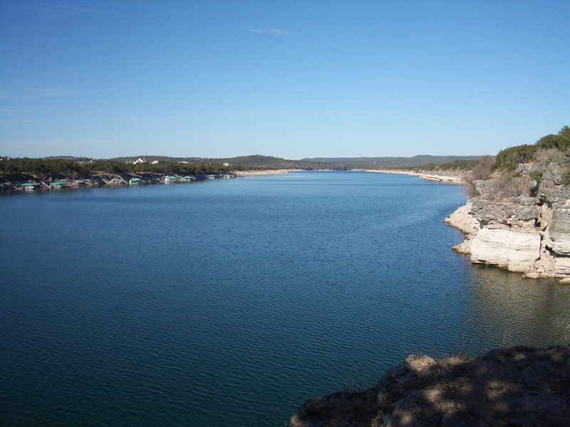 View of Lake Travis facing North from Thurmann Cove in Pace Bend State Park. Photo taken by Reid Sullivan 1/2/06.